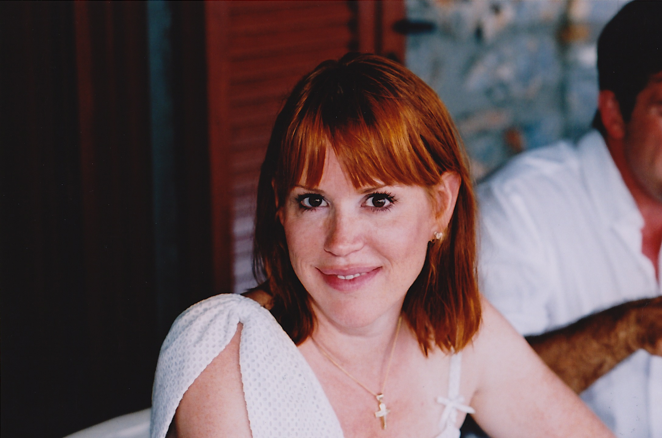 Molly Ringwald in Greece